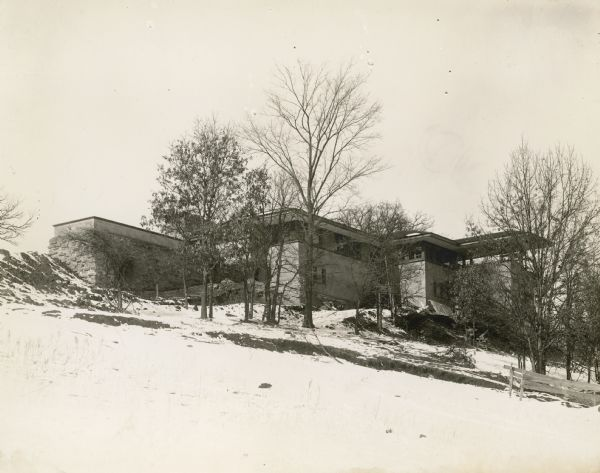 The earliest known image of Taliesin I, taken in the winter of its construction in 1911-12. Southwest elevation.